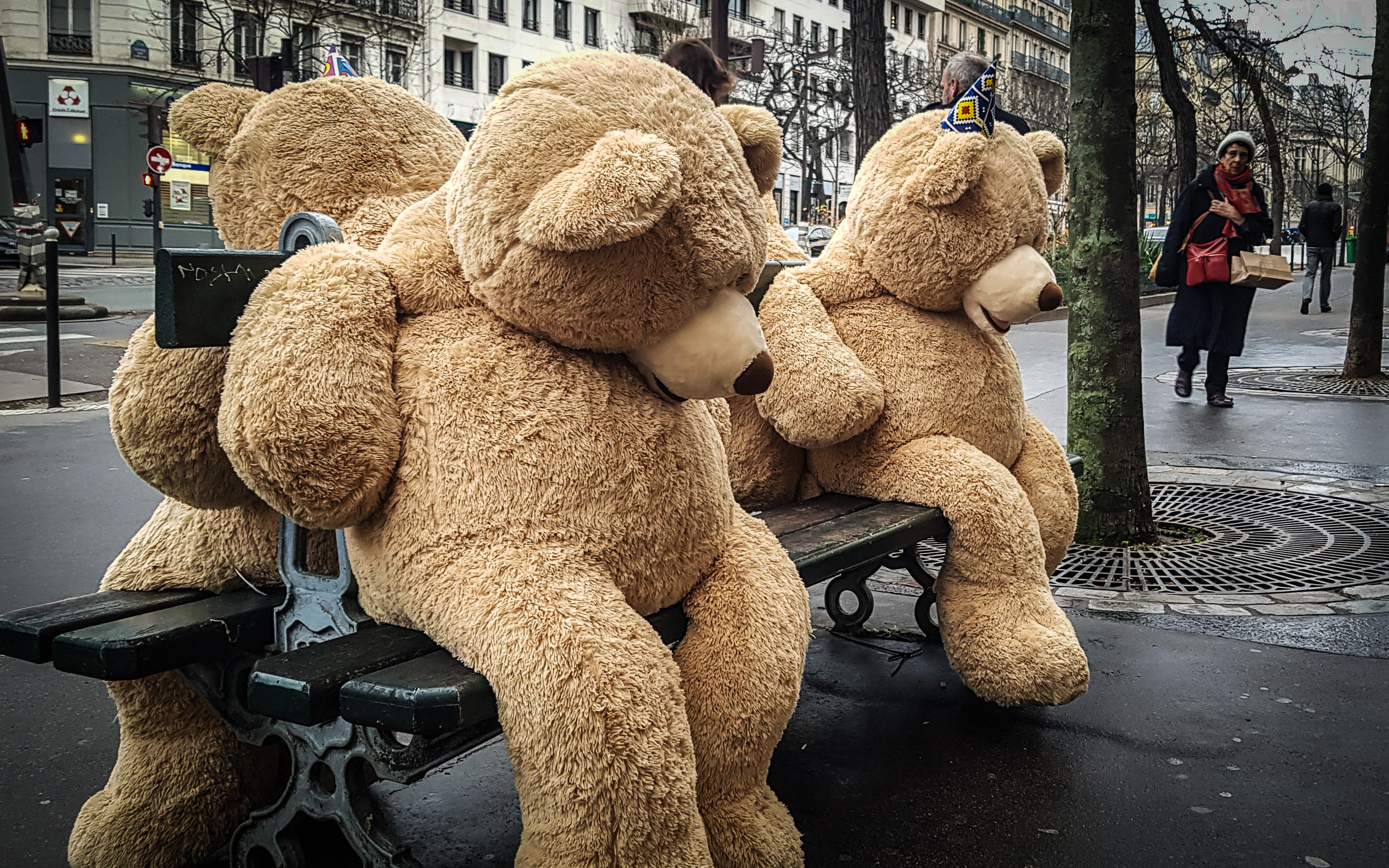 Giant teddy bears feature in several locations on the 13th arrondissement of Paris